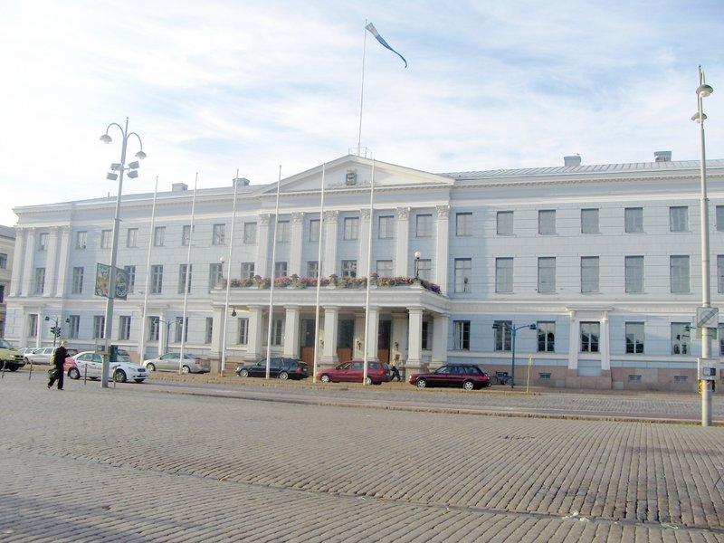 Helsingin City hall, Pohjoisesplanadi 11–13, Helsinki, Finland. Built 1833. Architect: Carl Ludvig Engel.